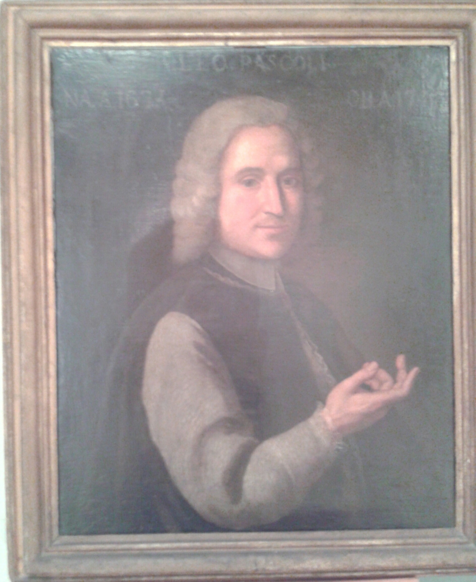 Ritratto di Lione Pascoli